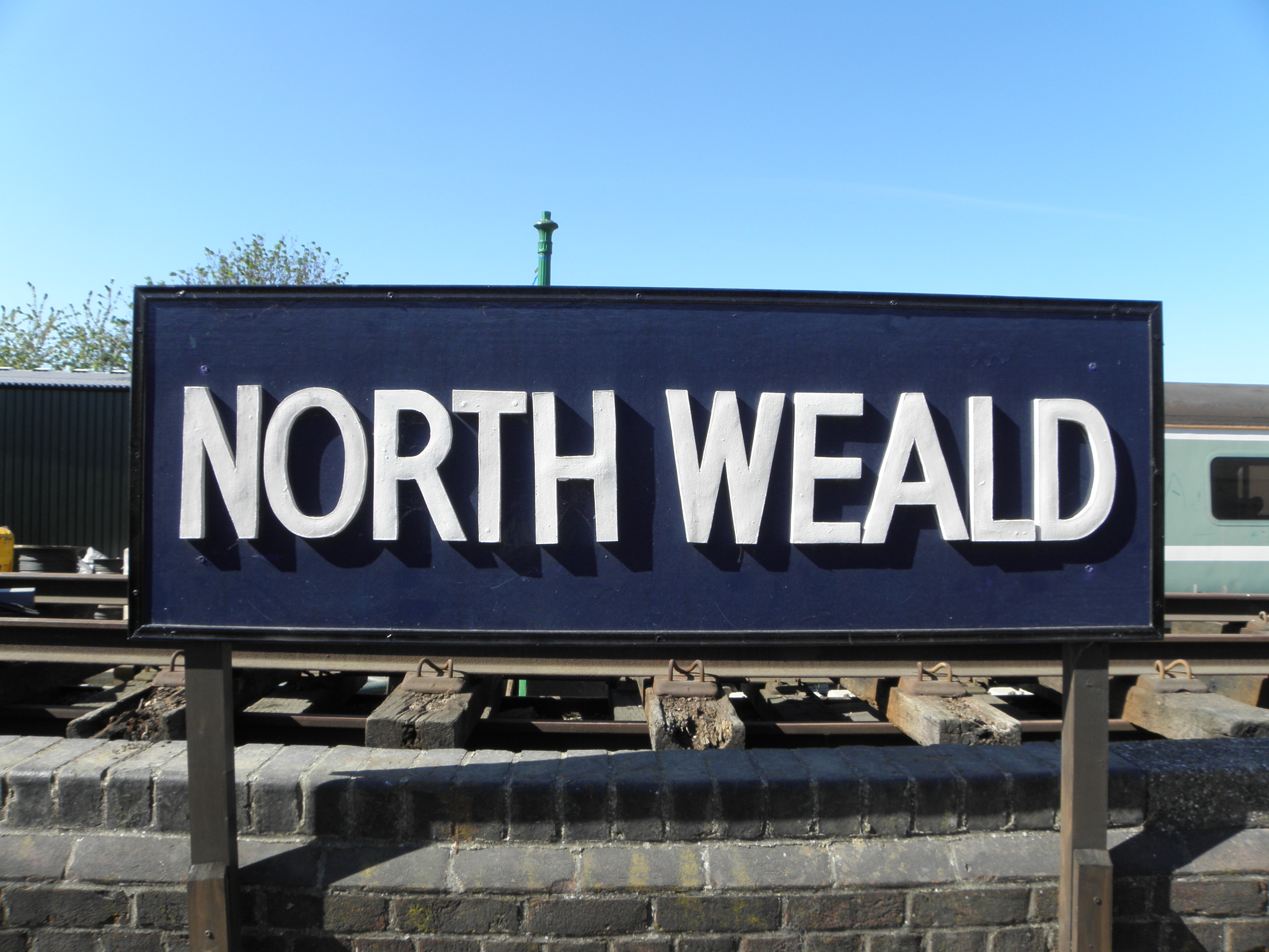 North Weald station platform signage in 2012